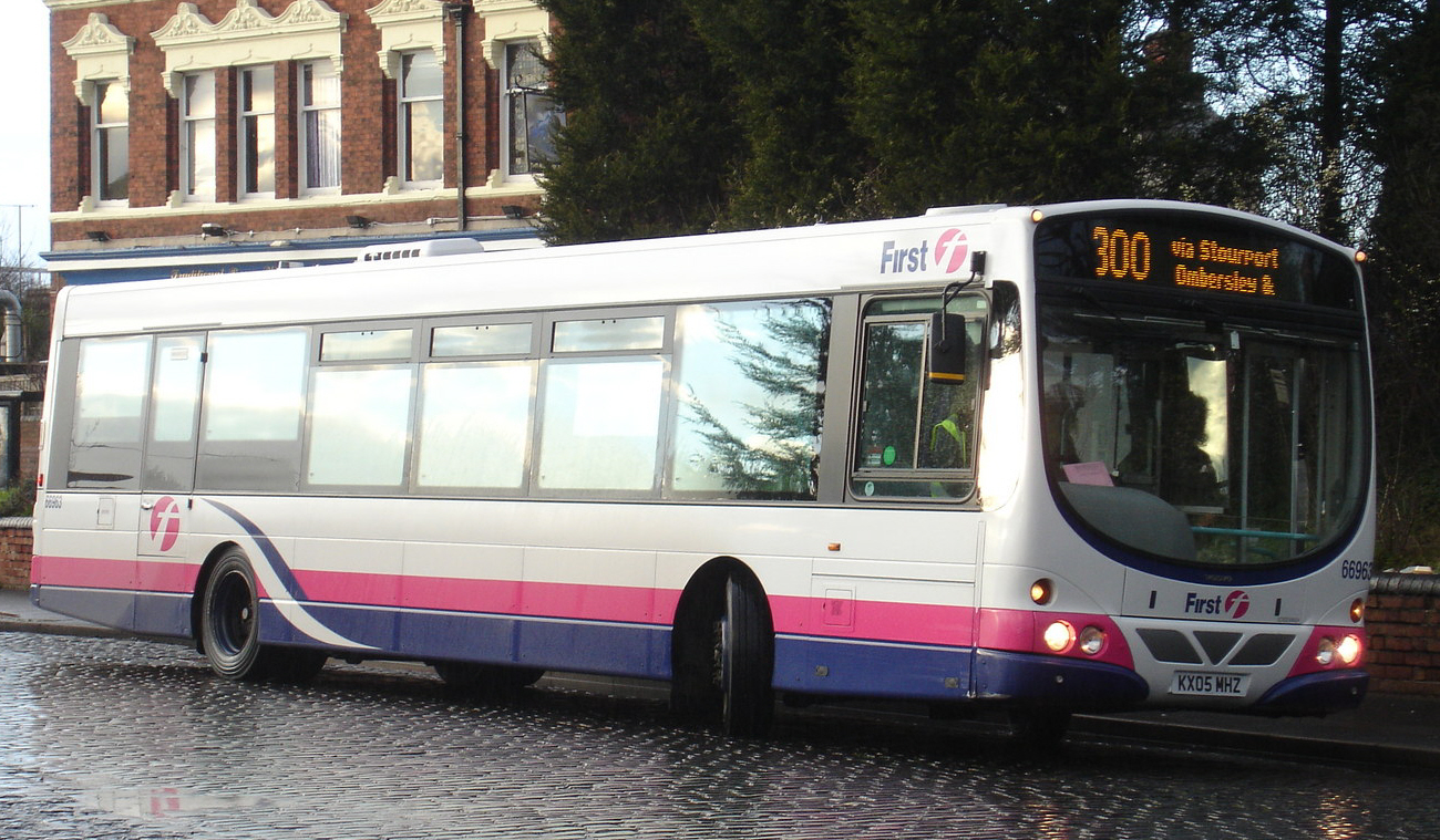 First Midland Red bus 66963 (reg. KX05 MHZ), a Volvo B7RLE single-decker with Wrightbus Eclipse Urban bodywork, pictured at Kidderminster station, Worcestershire.